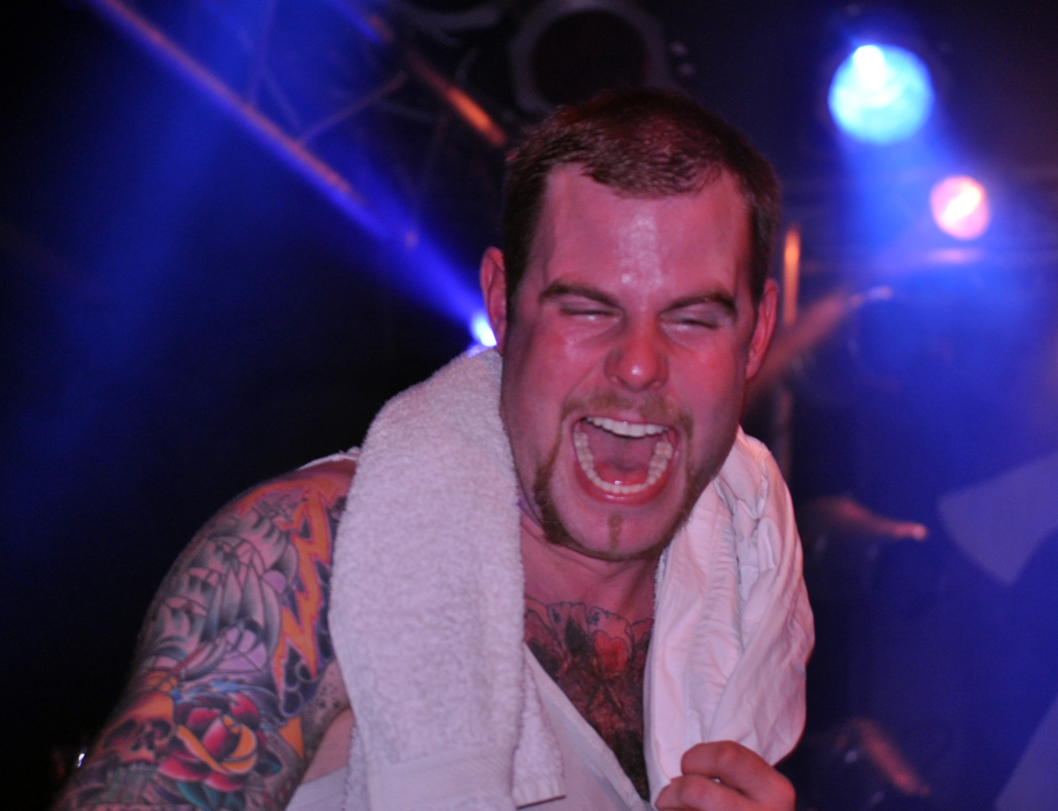 singer of the German rock band Kärbholz